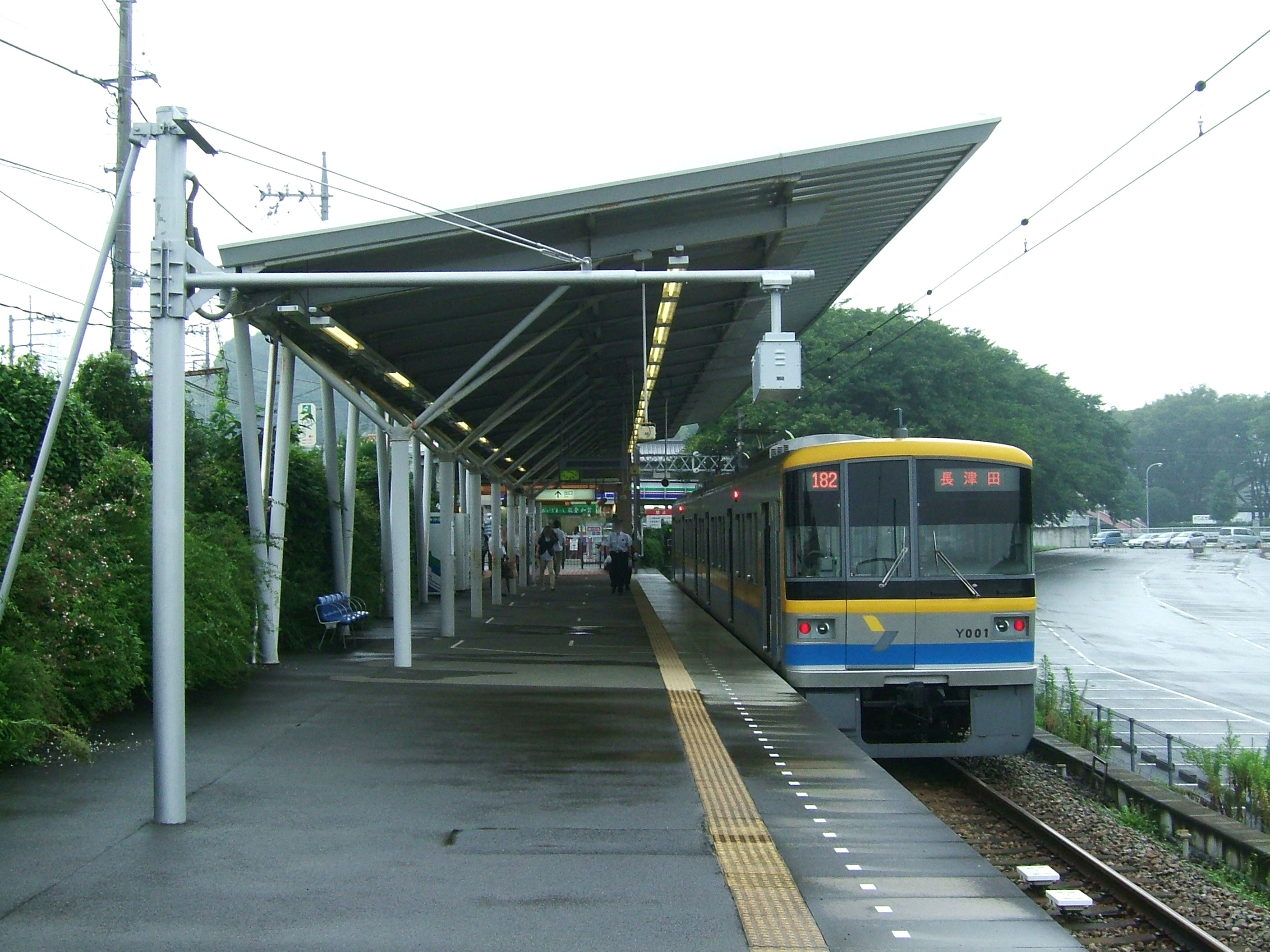 Kodomonokuni Station platform and Kodomonokuni Line's train.